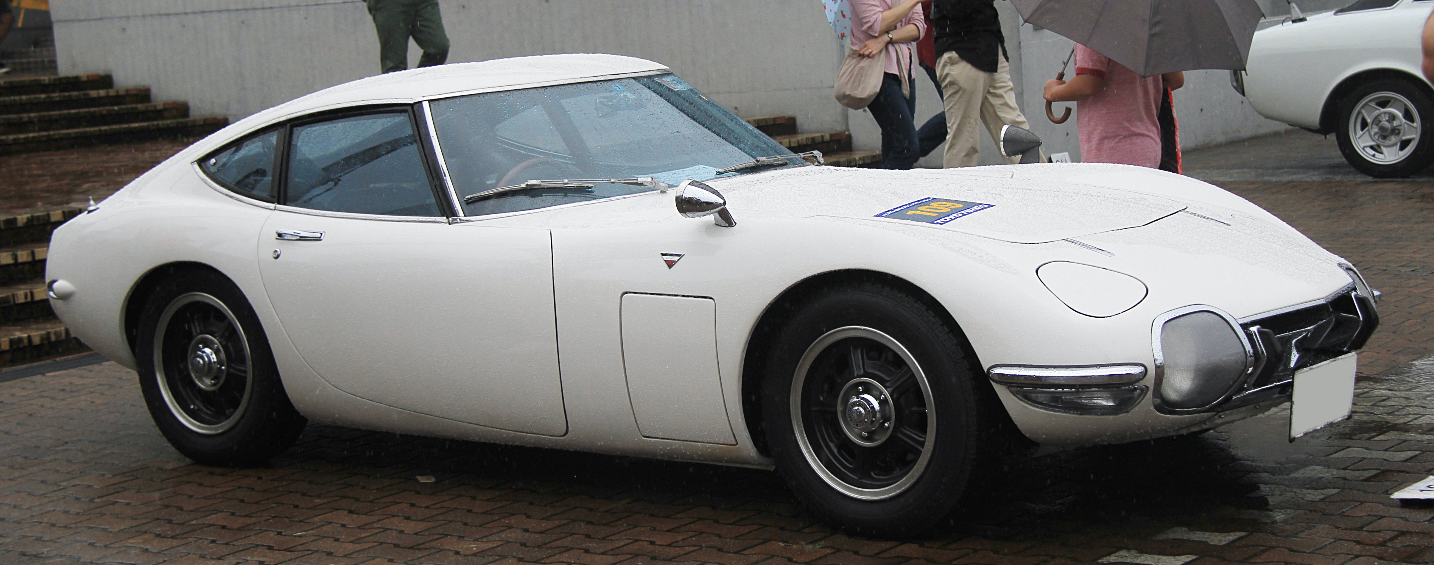 Toyota 2000GT